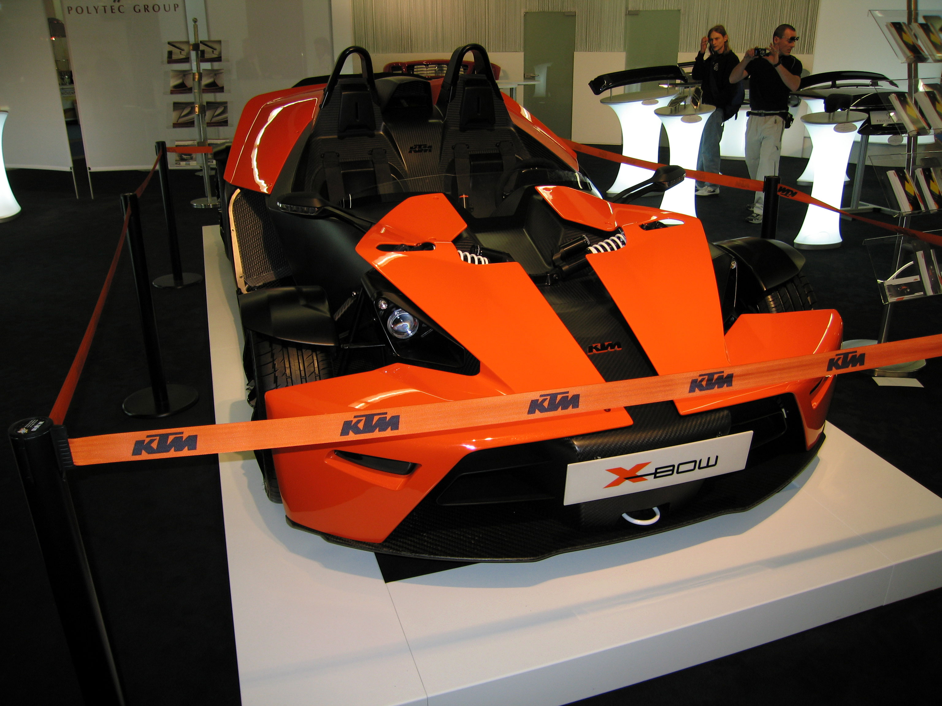 KTM X-Bow at the IAA 2007